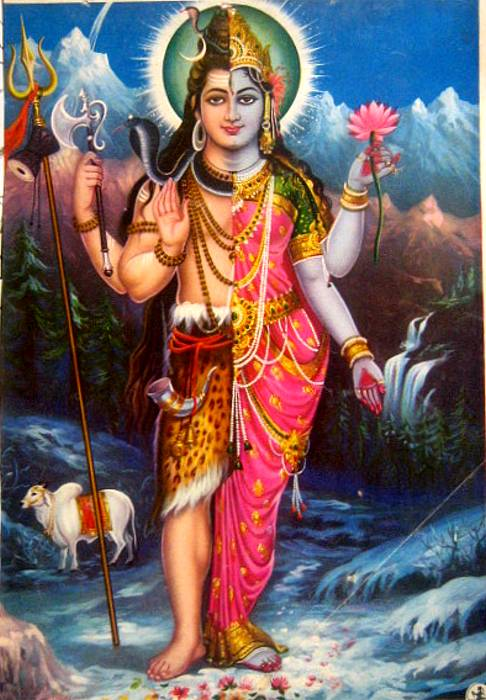 Arddhanarishvara, bazaar art, 1940's; *another, similar version*Source: ebay, June 2005